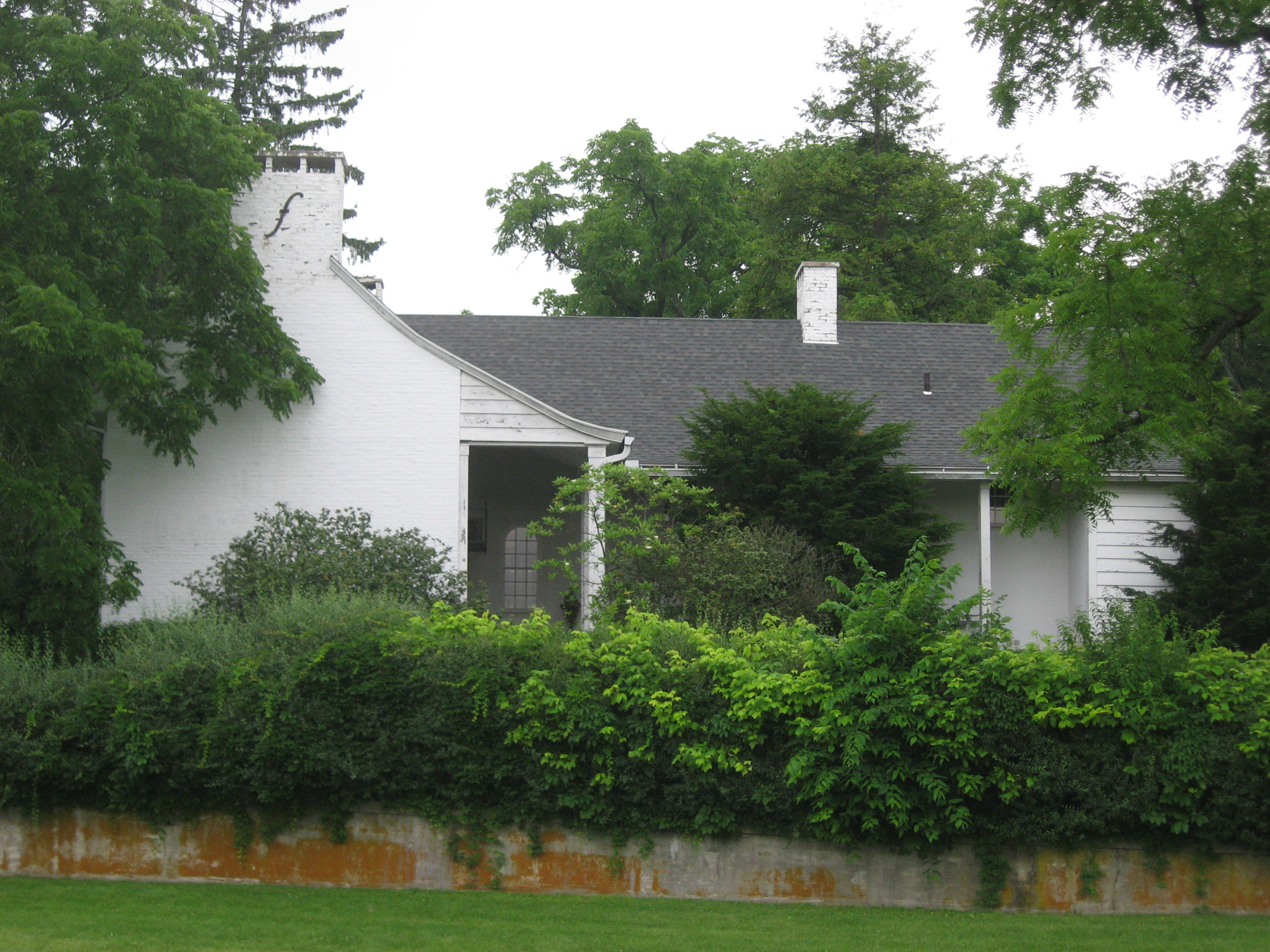 Rear of the Whitehall Farmhouse, located on the northwestern corner of the intersection of Yellow Springs-Fairfield Road and U.S. Route 68 immediately north of the village of Yellow Springs in Miami Township, Greene County, Ohio, United States. Built in 1842, it is listed on the National Register of Historic Places.